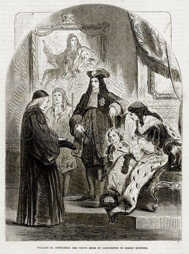 King William of England and Scotland entrusting his nephew and heir, Prince William, Duke of Gloucester, to Bishop Burnet. Illustration from John Cassell's Illustrated History of England.